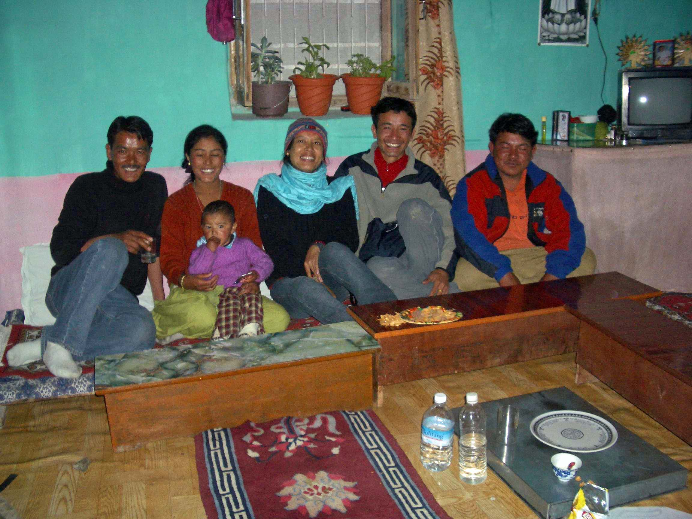 I took this photo in Kaza in 2004